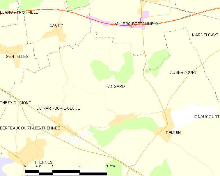 Map of French municipality Hangard